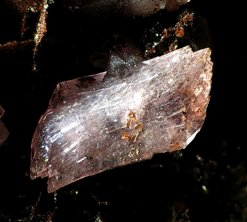 Hureaulite Locality: Hagendorf South Pegmatite (Cornelia Mine; Hagendorf South Open Cut), Hagendorf, Waidhaus, Vohenstrauß, Oberpfälzer Wald, Upper Palatinate, Bavaria, Germany (Locality at ) Picture width 3 mm. Collection and photograph Christian Rewitzer